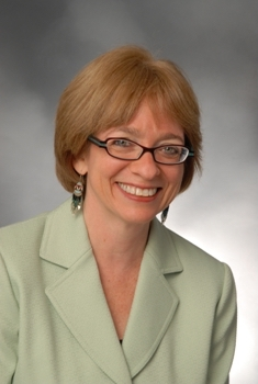 Chai Feldblum's official Equal Employment Opporunity Commission photo